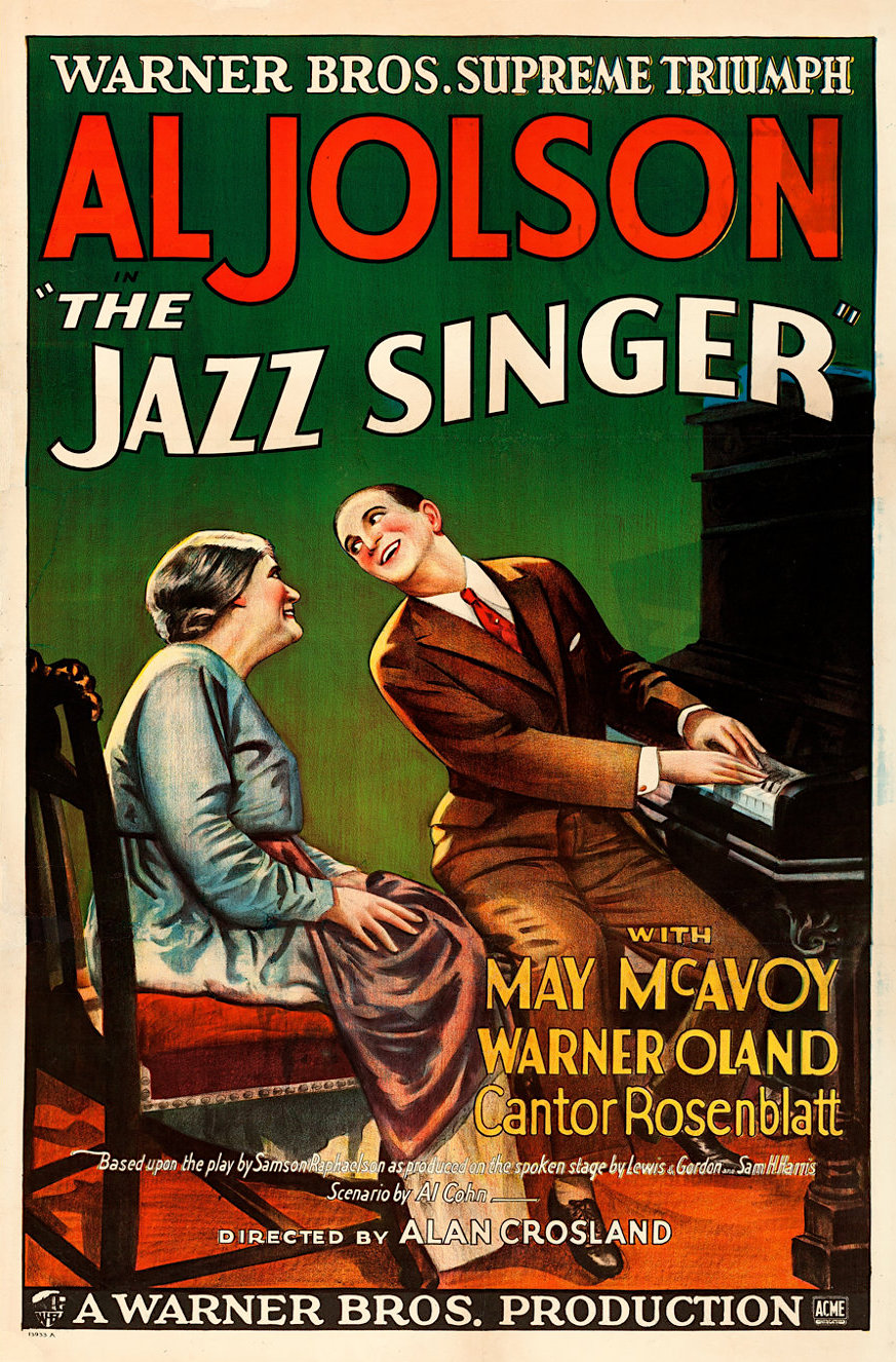 Poster for the movie The Jazz Singer (1927), featuring stars Eugenie Besserer and Al Jolson. Warner Bros. (original rights holder)